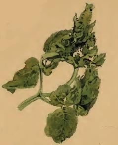 Stainton’s Natural History of the Tineina (1855–1873): Agonopterix angelicella a leaf of Angelica sylvestris inhabited by larva